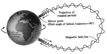 Illustration of the motion of a charged particle trapped in the Earth's magnetic field. (From a LLNL report on radiation belt pumping from high-altitude nuclear explosions.)